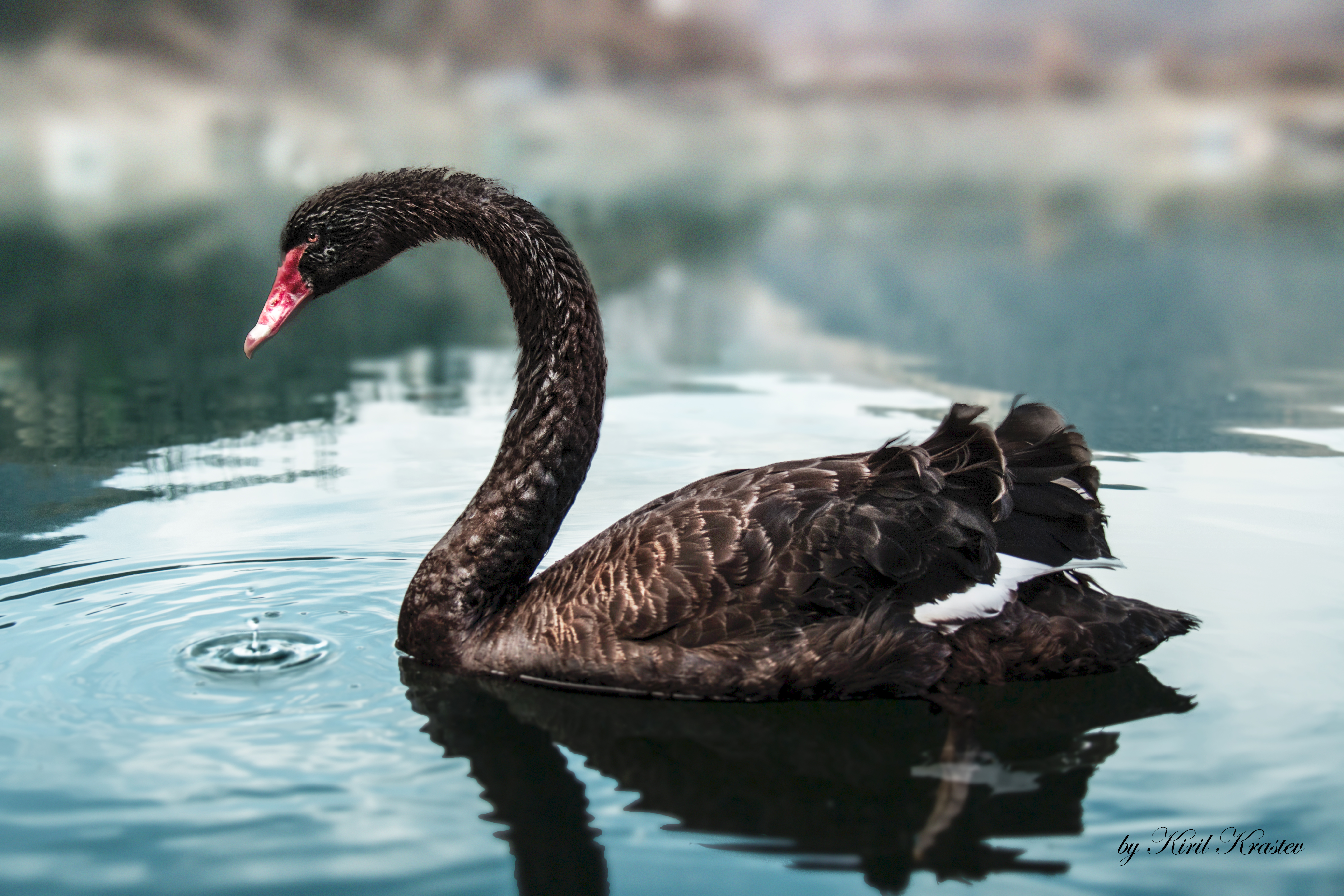 A black swan from Vacha reservoir, Bulgaria.